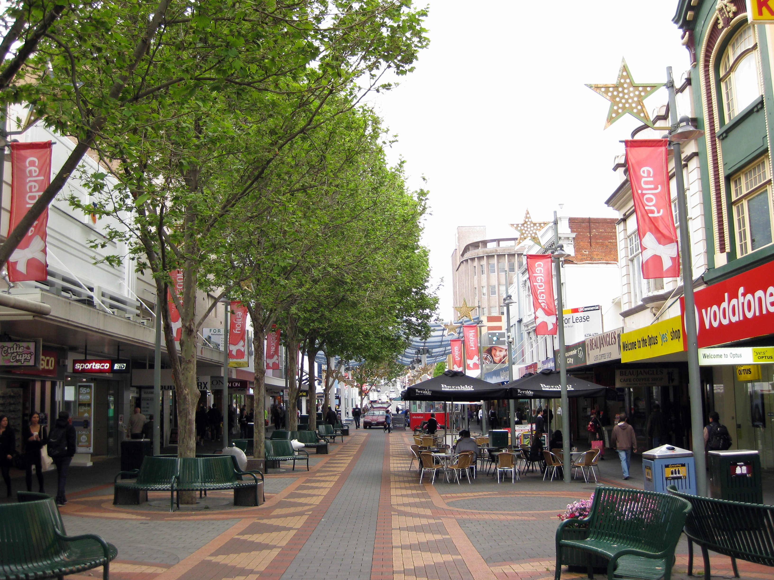 Elizabeth Street Mall in Hobart during November 2010